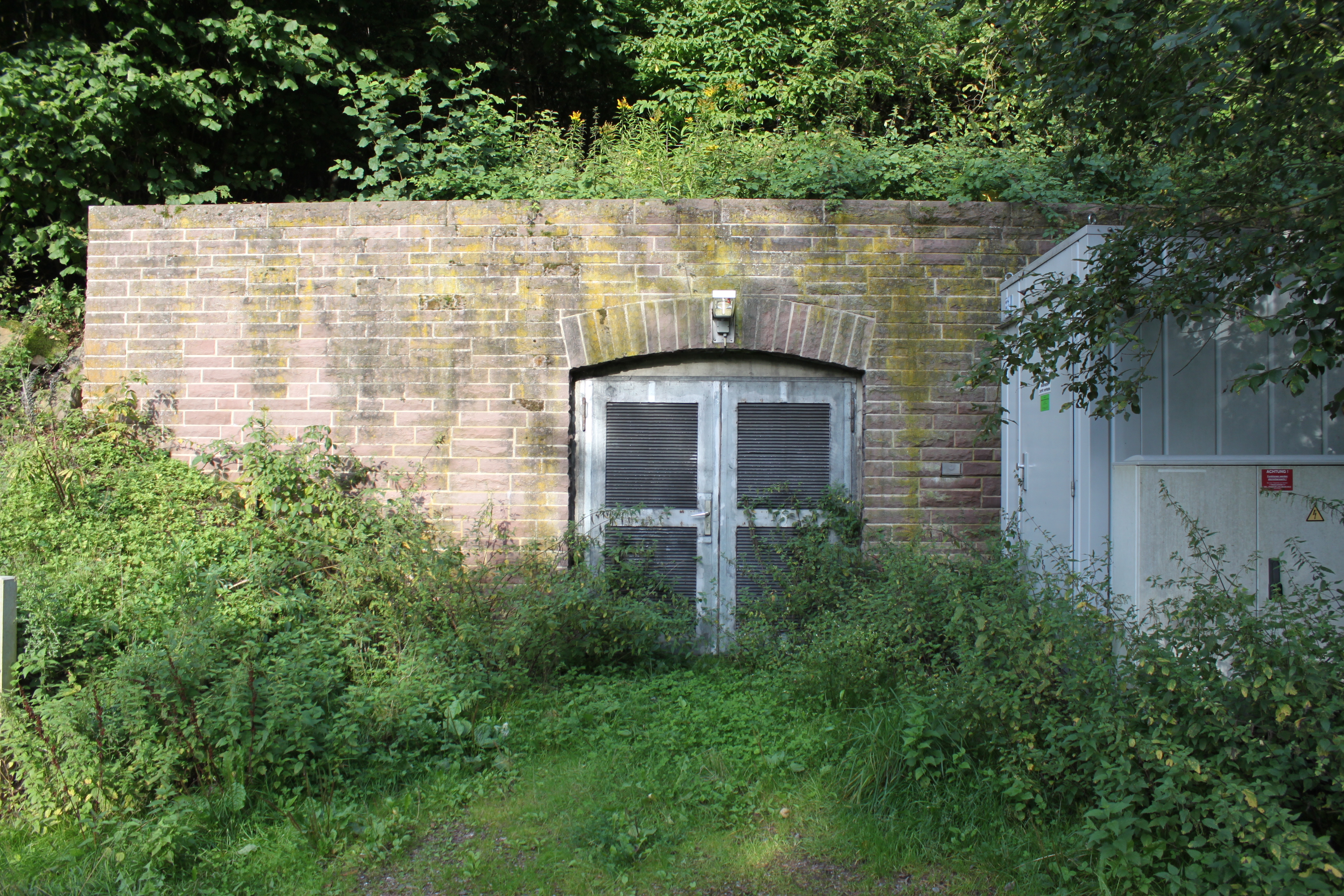 Portal of the Mündener Tunnel emergeny exit.